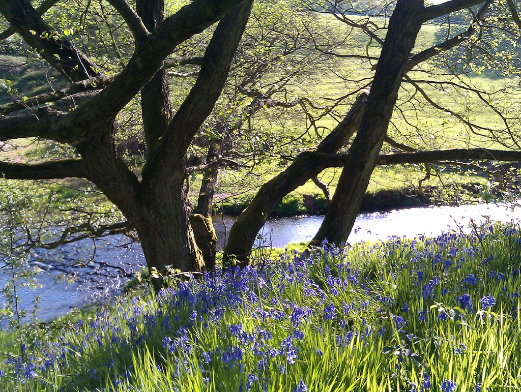 Bluebells beside the stream at Dane-in-Shaw Brook SSSI in Congleton.